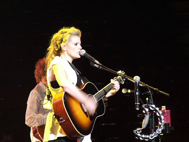 Dixie Chicks in Austin, Texas, 2006 during their Accidents and Accusations Tour. Photo by Ron Baker.